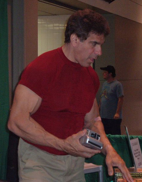 Lou Ferrigno, American bodybuilder and actor.